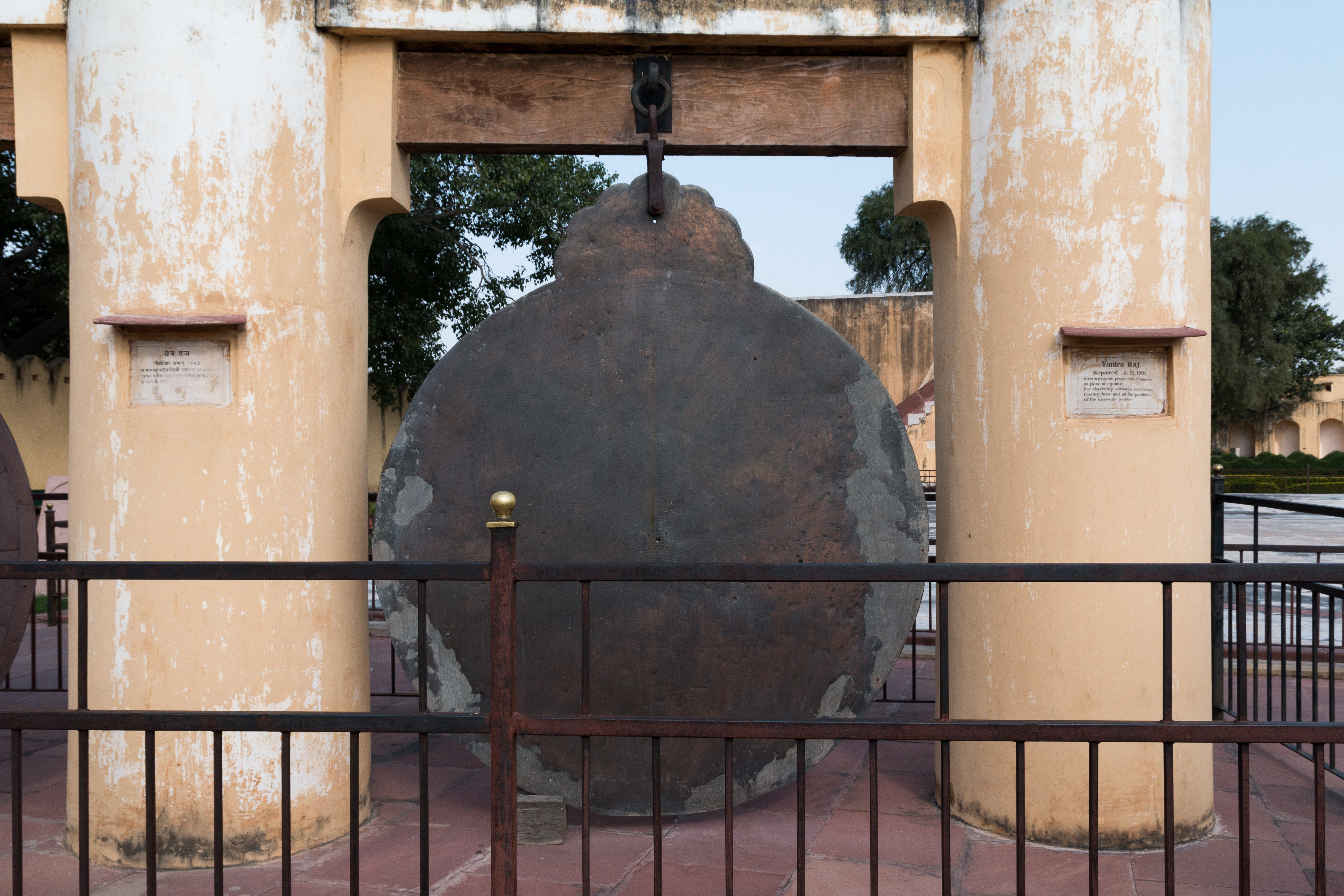 Yantra Raj, two disc set used as chart of the skt